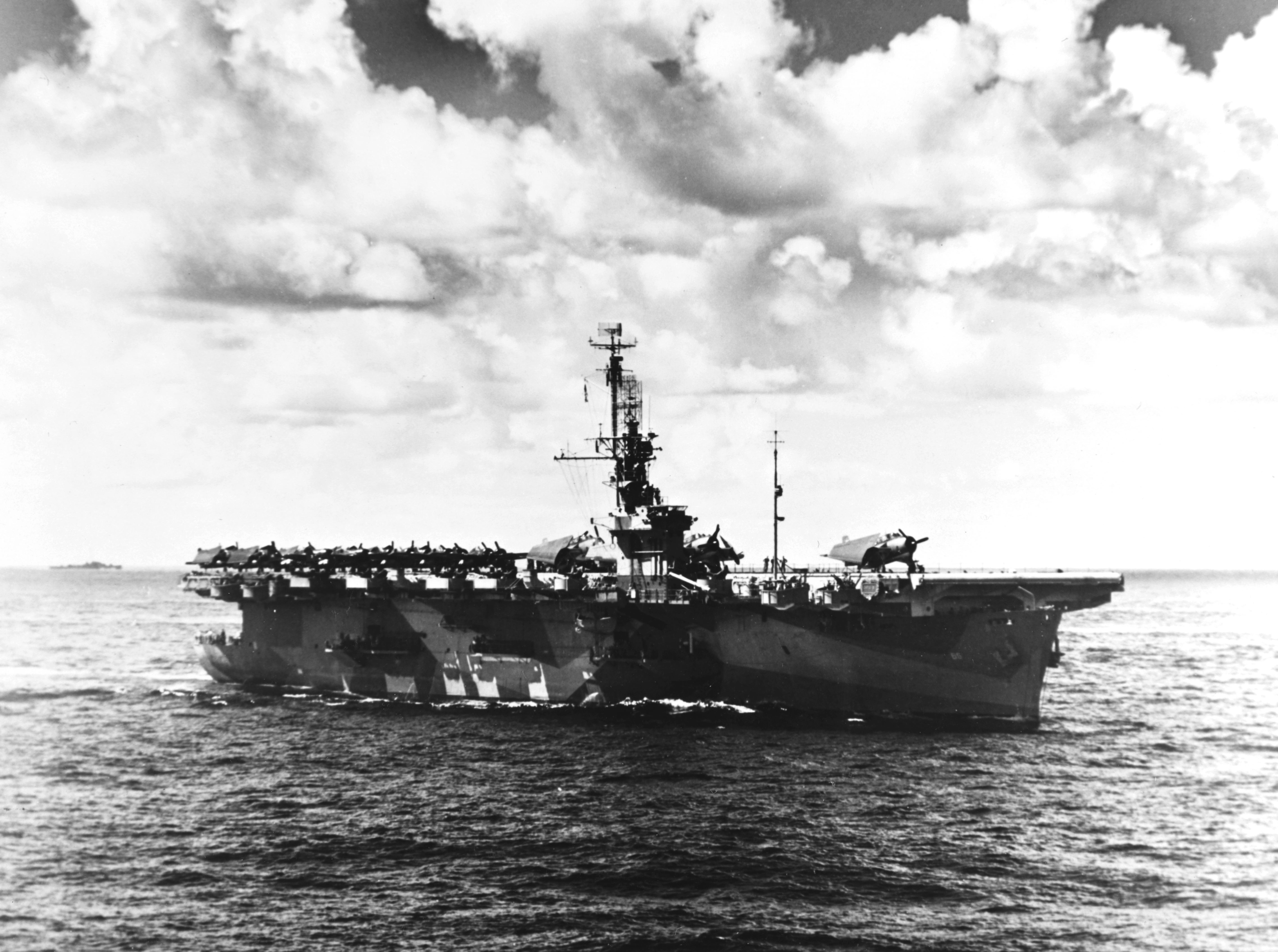 The U.S. Navy escort carrier USS Wake Island (CVE-65) underway with task group 77.4, en route to the Lingayen Gulf landings, 5 January 1945. Note the high frequency direction finder (HFDF) antenna atop her small foremast. She is painted in Camouflage Measure 33, Design 10A. Photographed from USS Makin Island (CVE-93).